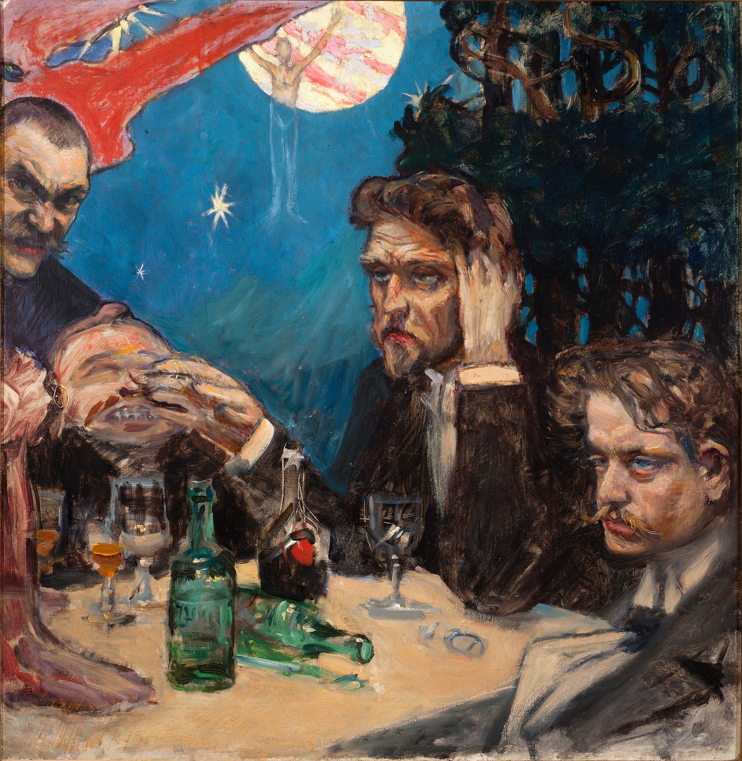 Sketch for Symposium/Symposion. At least equally as popular if not more than the finished work as there were small changes.